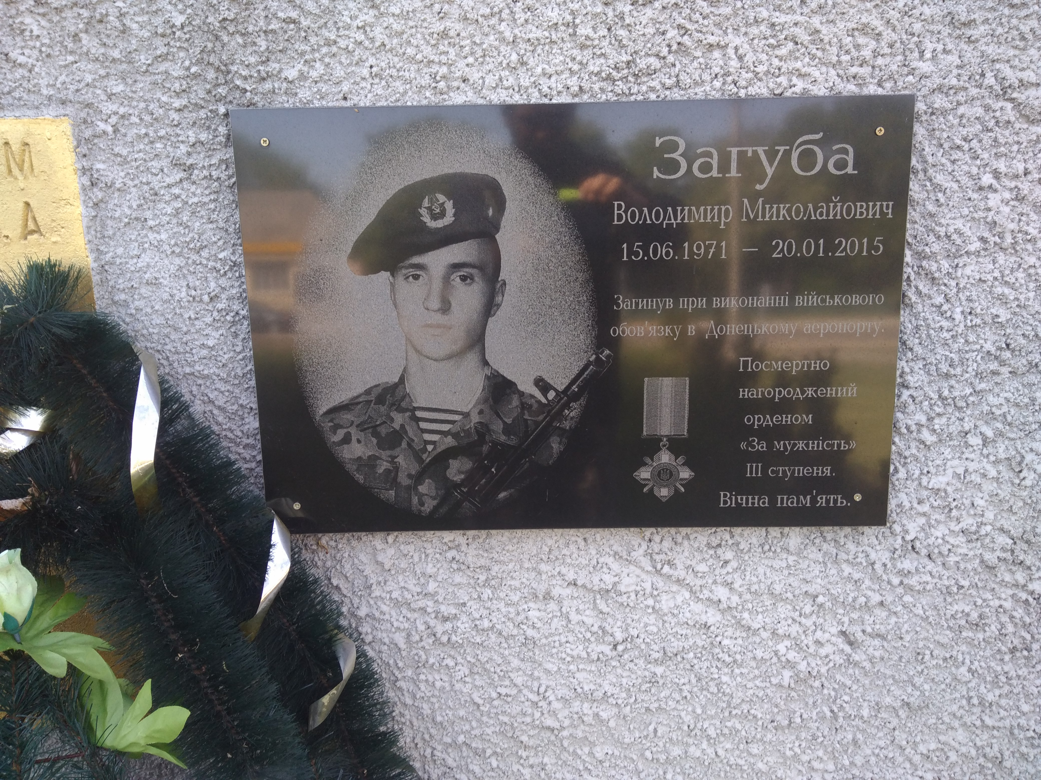 Novoselytsya (Chyhyryn Raion, Cherkasy Oblast, Ukraine). The Commemorative plaque to Ukrainian soldier Zaguba V.M.